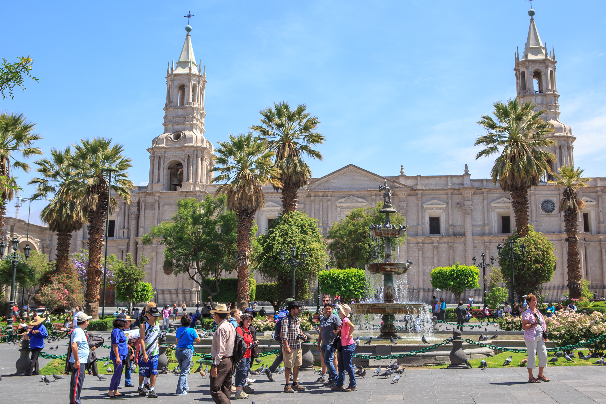 in Aerquipa Peru,…Plaza de Armas